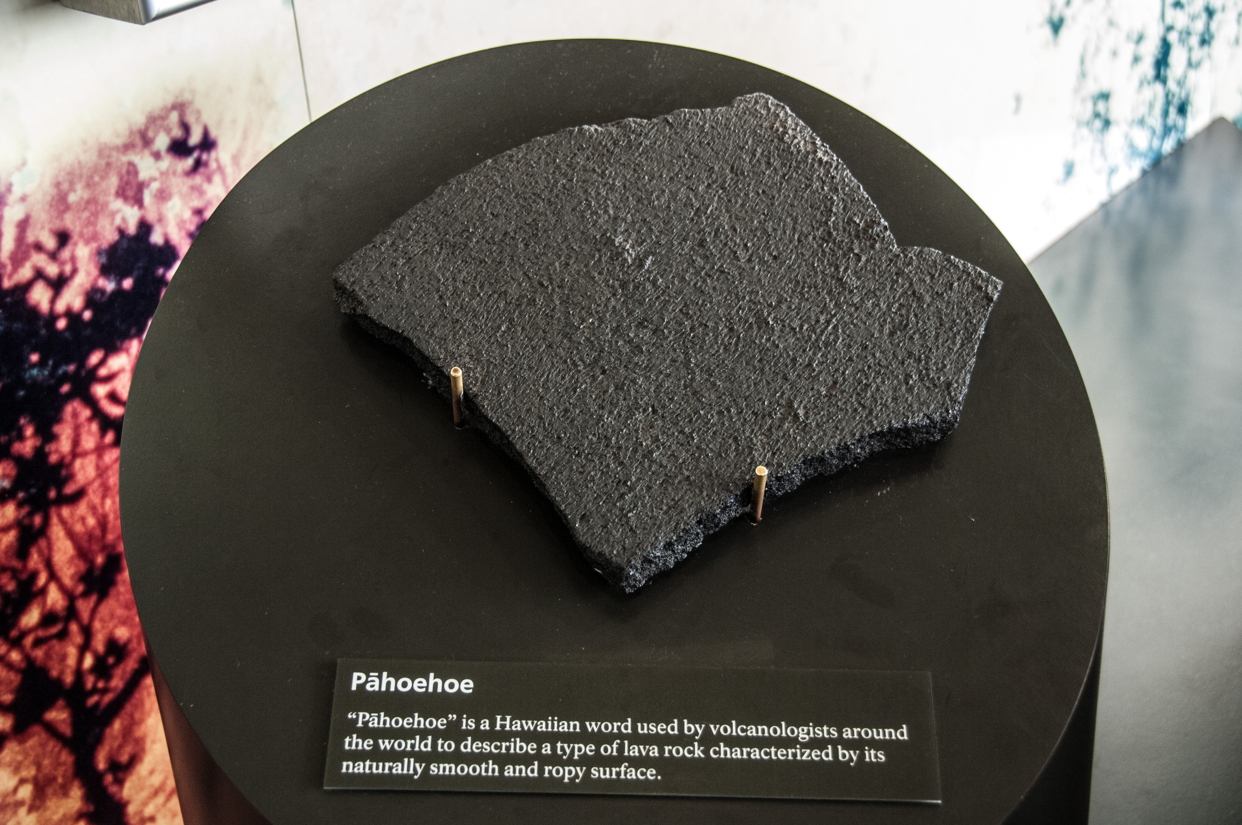 Pāhoehoe lava is characterized by its naturally smooth and ropy surface.